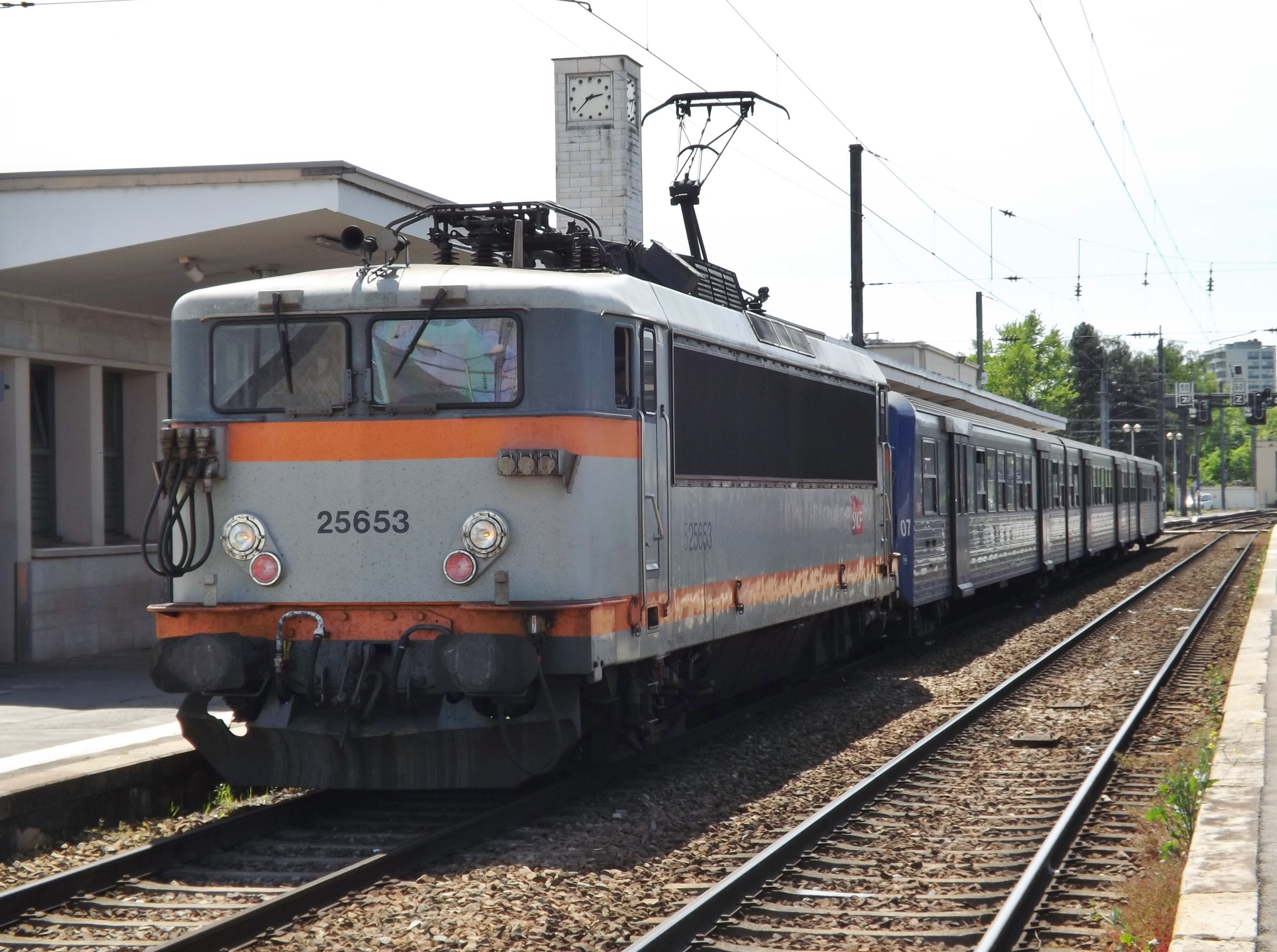 Sight of the SNCF Class BB 25653 at Besançon-Viotte railway station, in Doubs, France.